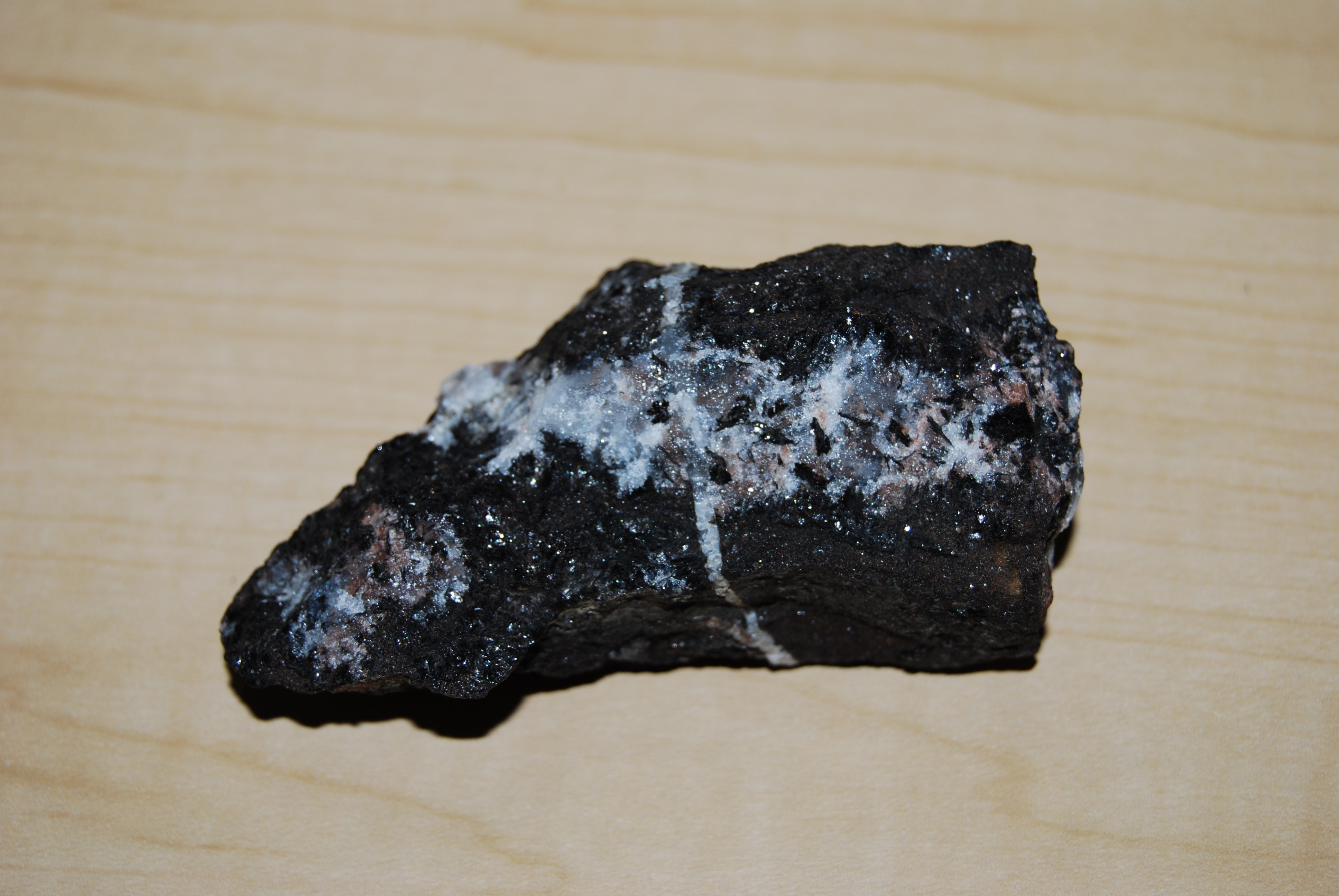 Sample of stilpnomelane with quartz, collected from a US 101 road cut and quarry south of Laytonville, California. Original work, sample in contributor's possession.